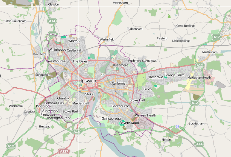 Map of Ipswich